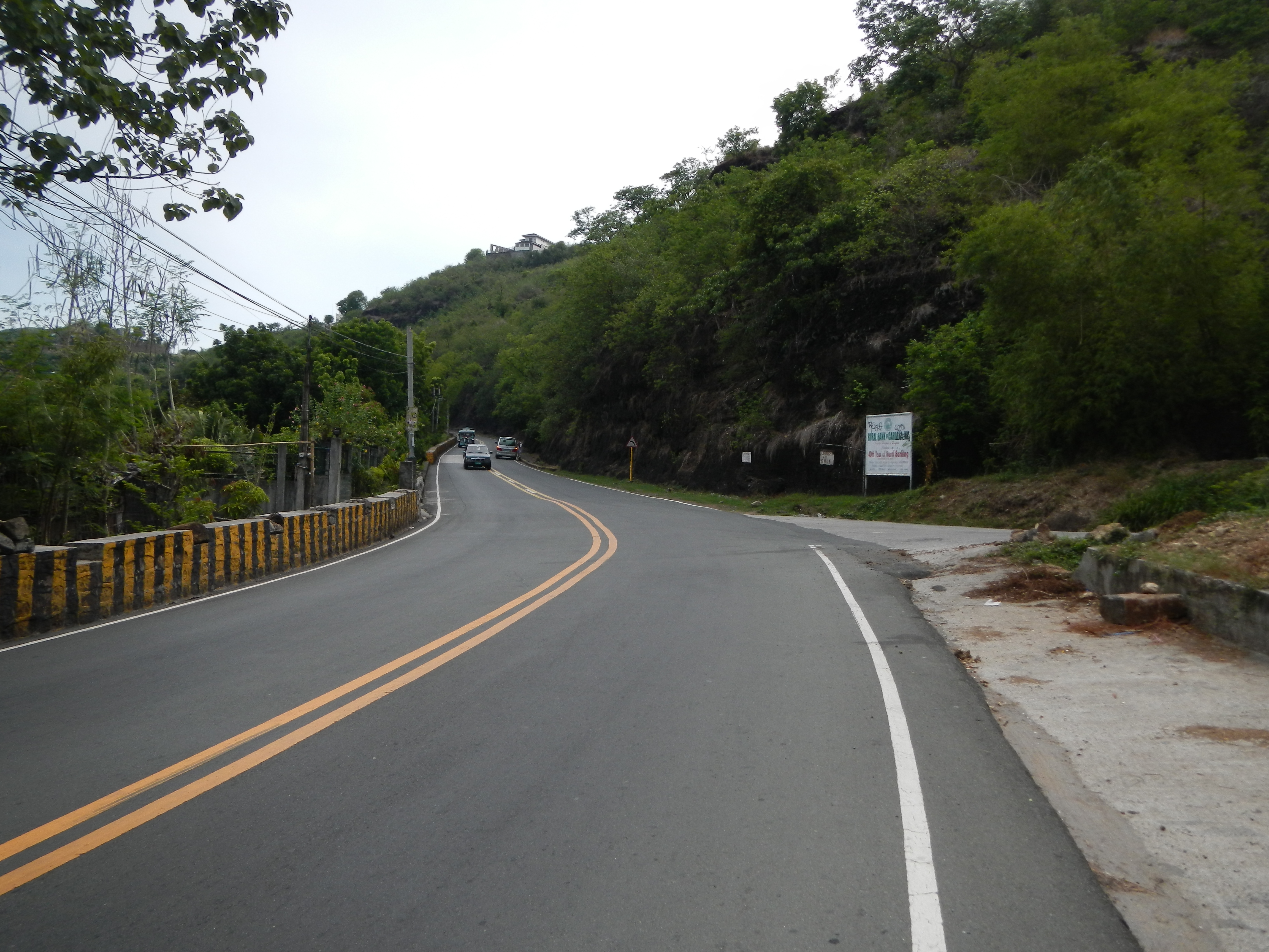 Rare, raw, unedited and original photos of the Rizal 1st Engineering District & Rizal 2nd Engineering District, Highway Boundary Km 38 + 280; Cardona, Rizal Rotary International D-3800 Welcome Monument - Scenery - Laguna de Bay[1], the fish pens and fish pond of Cardona, Rizal[2] Coordinates: 14°27'32"N 121°13'26"E [3] Website [4] geographical location: Rizal, Region 4, Philippines, Asia Geographical coordinates: 14° 29' 11" North, 121° 13' 46" East This place is situated in Rizal, Region 4, Philippines, its geographical coordinates are 14° 29' 11" North, 121° 13' 46" East and its original name (with diacritics) is Cardona.[5] [6][7] [8] Cardona is a first class urban municipality in the province of Rizal, Philippines. According to the 2010 census, it had a population of 47,414 inhabitants in 7,953 households. Cardona is in District 2 of Rizal. Cardona is politically subdivided into 18 barangays, 11 of which are on the mainland and 7 on Talim Island.[9] ---------[N.B. June 2, Sunday day, 2013 Photography of Angono, Rizal[10], Binangonan, Rizal[11] and Cardona, Rizal[12]: 80% cloudy and 20% sunny weather using my Nikon AW 100 waterproof shockproof camera. From Bulacan at 10:45 a.m., I took photo at 12:25 pm of Goldenhills Jewelry of Antonio Z. Atienza, Jr.[13] in Robinsons Ortigas; and reached Angono, Rizal junction, crossing at 2:06 pm, then took photos of Binangonan Municipal Hall at 2:44 pm; I finished Cardona, Rizal photography at 5:17 p.m., and arrived at Bulacan at 9:30 pm after 3+ hours of travel by bus, and started uploading via slow internet at 9:50 pm - I hereby certify that these rarest, raw, original and unedited photos are exclusive for Commons and Wikipedia never uploaded in any Internet or any site, and for the public domain without any condition.]